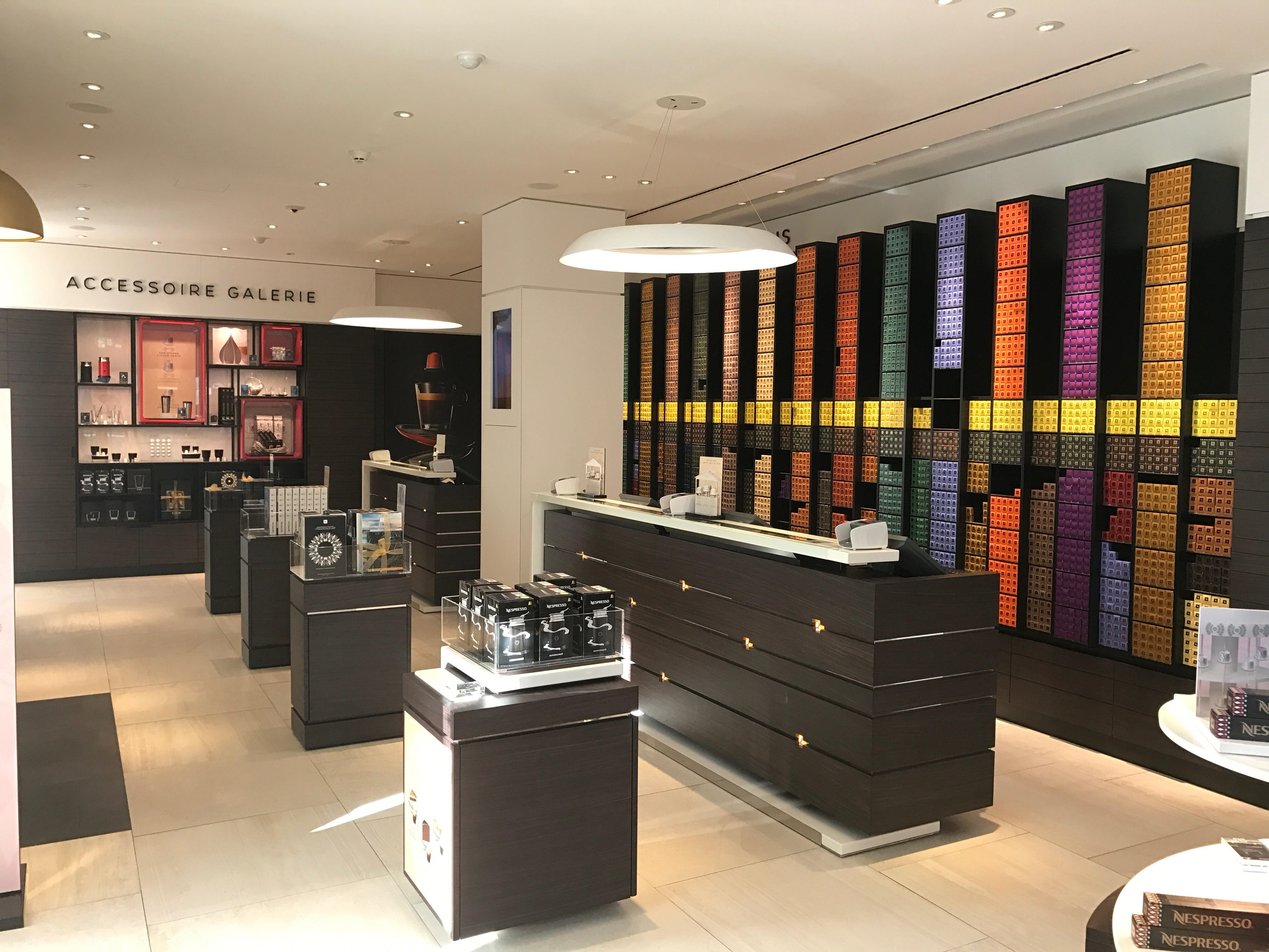 Nespresso-Shop, Chur